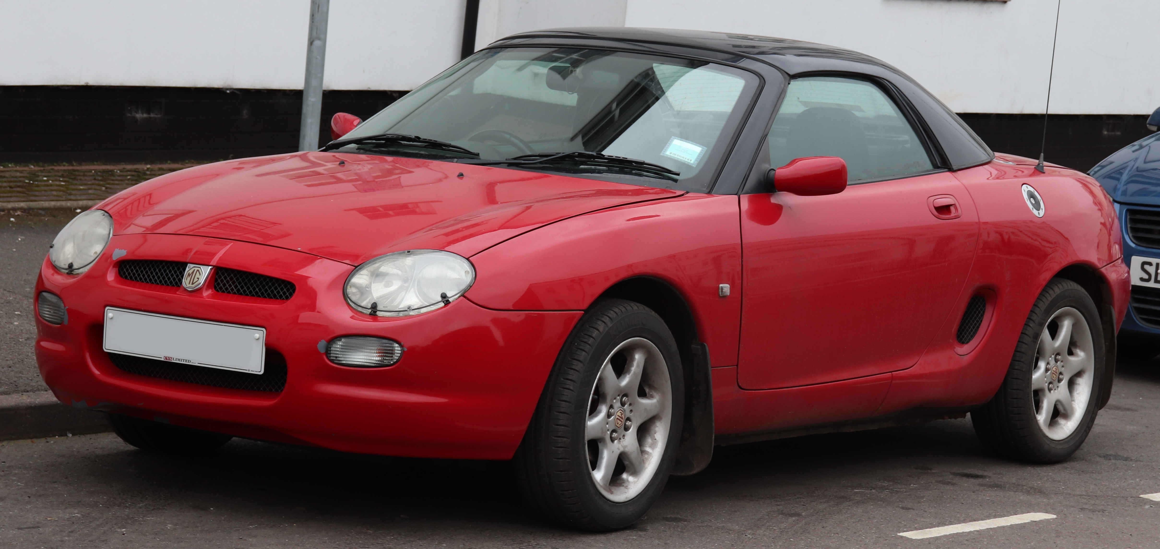 1999 MG F 1.8 Front Taken in Leamington Spa